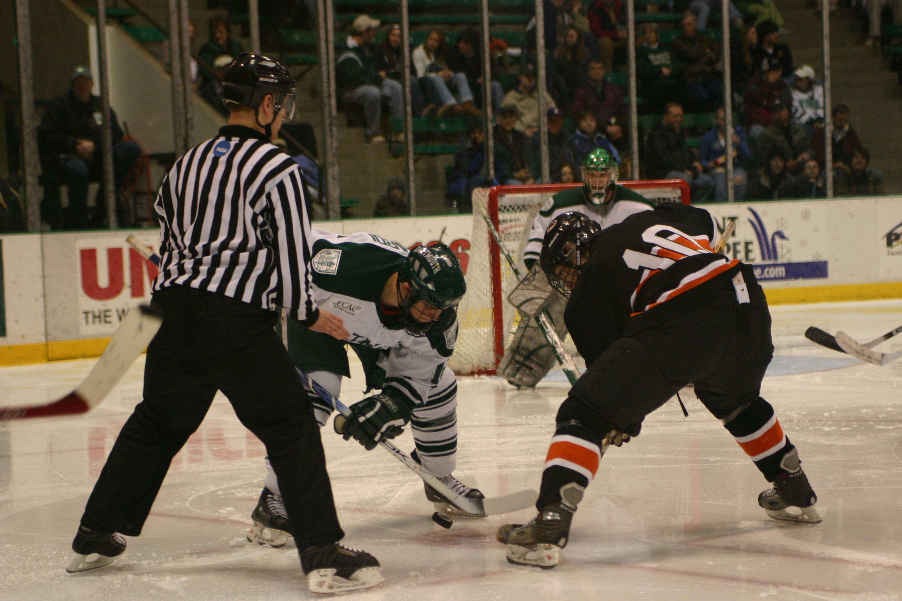 Dartmouth College Big Green men's ice hockey team vs. Princeton University, Ivy League, Thompson Arena